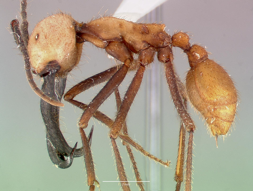 Profile view of ant Eciton burchellii specimen casent0003205.